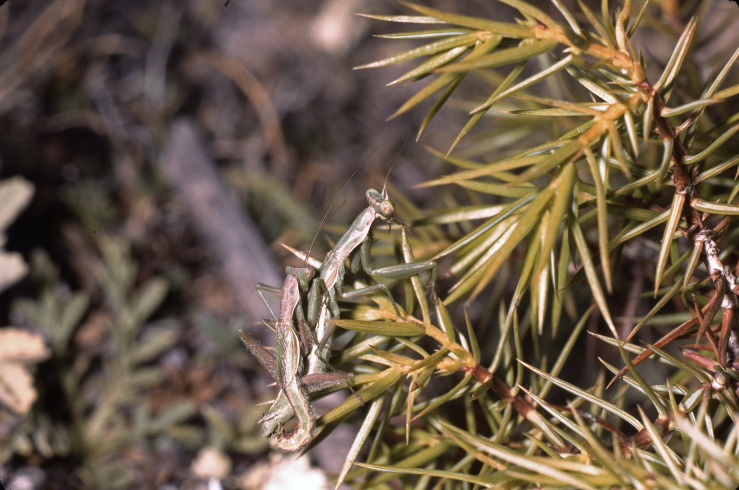 Order Dictyoptera, Suborder Mantodea, Family Mantidae, Pseudoyersinia paui (Bolivar 1898): Mating. Location: Spain, Bovalar near Morella. Photo by Klaus-Gerhard Heller.